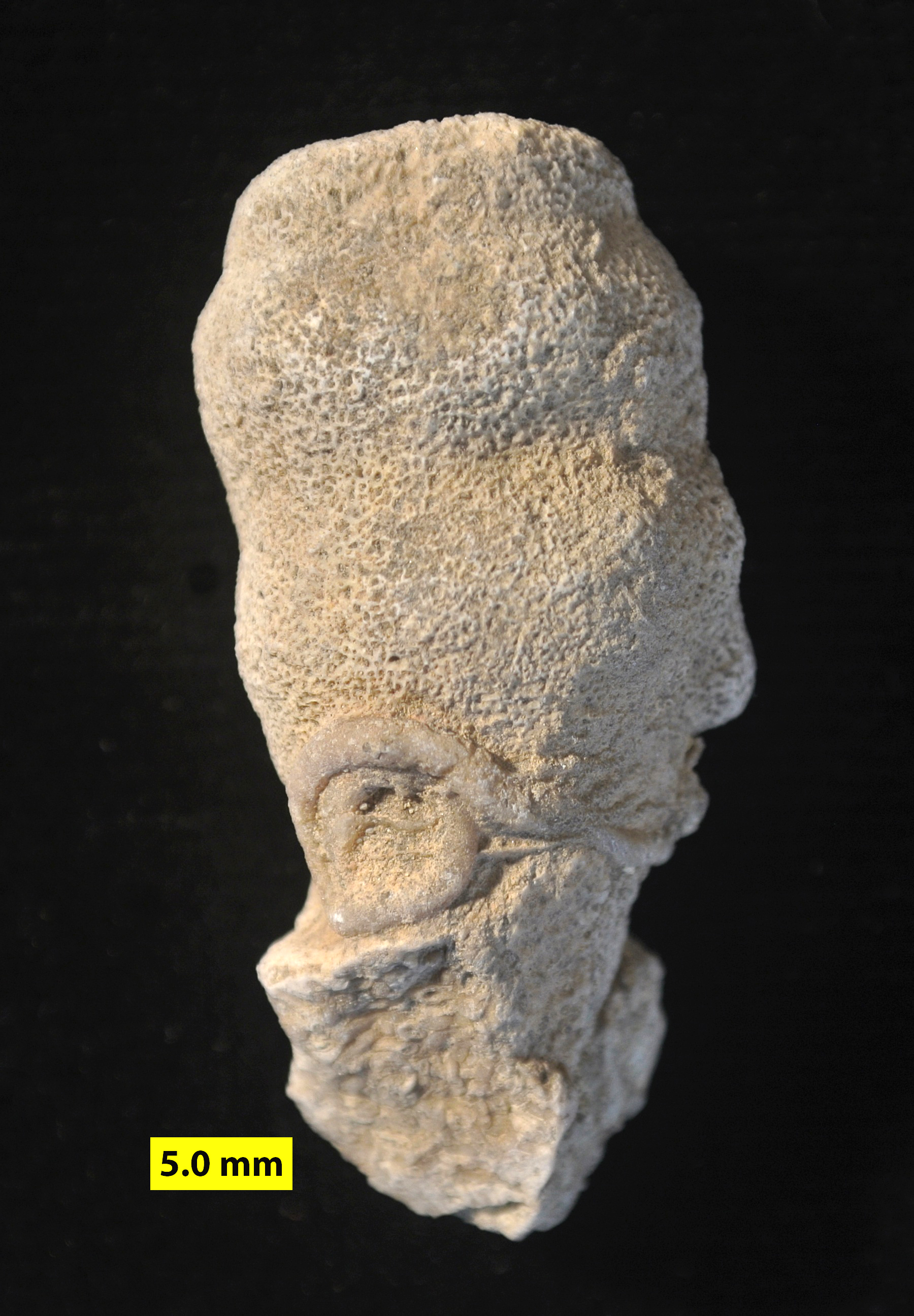 Peronidella, a calcisponge from the Matmor Formation (Callovian) of southern Israel.